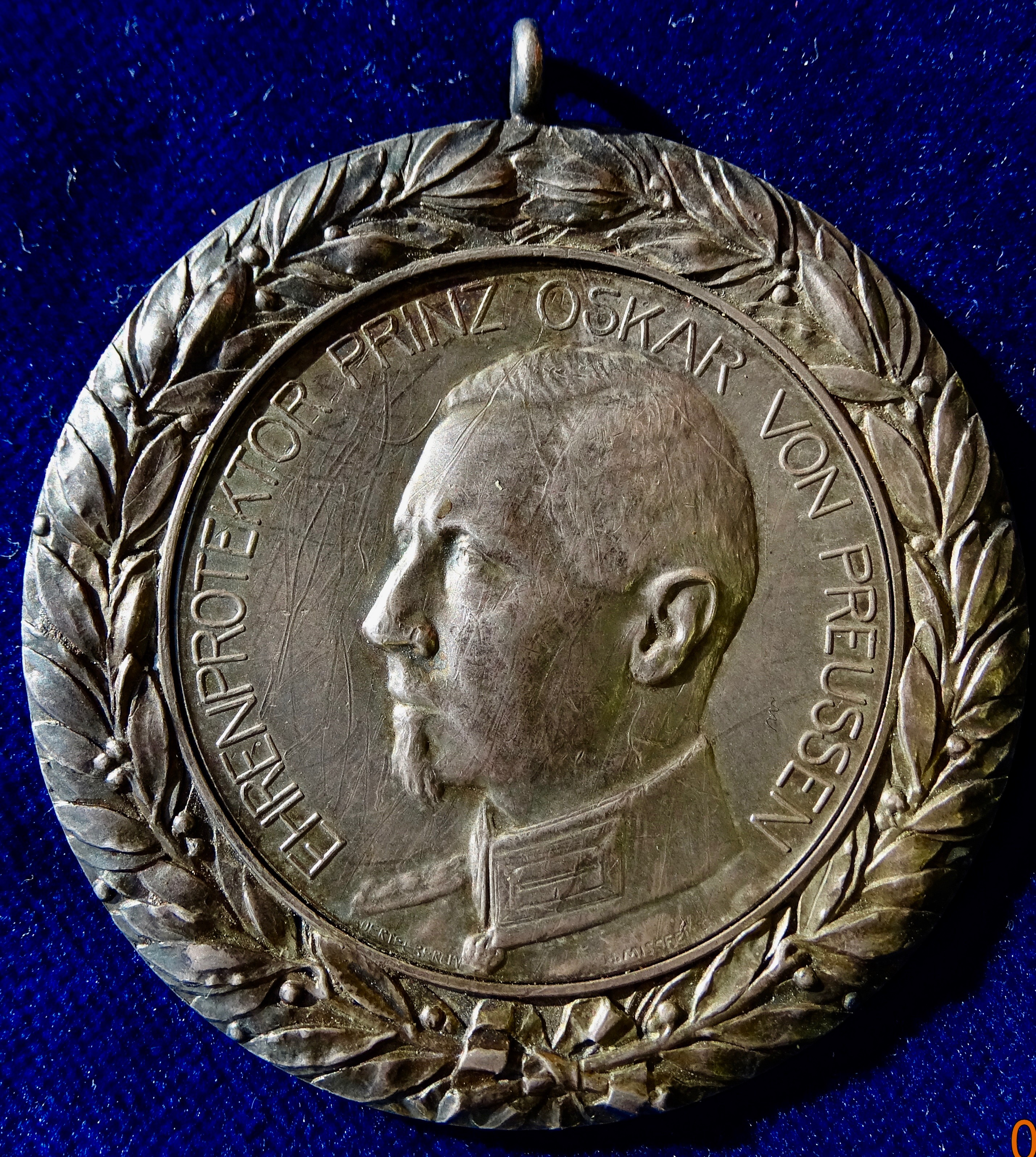 Germany, Oskar von Preussen 1930 Shooting Medal Barnim - Altlandsberg Medallion d. = 55 mm. 47.62 g Ag Prince Oskar Karl Gustav Adolf of Prussia, 1888 Potsdam - 1958 Munich, Bavaria, West Germany Around portrait l.: "EHRENPROTEKTOR PRINZ OSKAR VON PREUSSEN"/ 4 lines on inner medallion:"BARNIMER SCHÜTZENBUND 1930". Engraved around the outer rim: "Königsschießen Alt-Landsberg 22. - 29. 6. 30 * II. Preis *" Mint: Berliner Medaillen-Münze Otto Oertel Medallist: H. (Heinrich) Missfeldt, sculptor, 1872 Kiel- Suchsdorf , Schleswig-Holstein - 1945 Torgau, Saxony. Condition: EXTREMELY FINE.. Original loop.